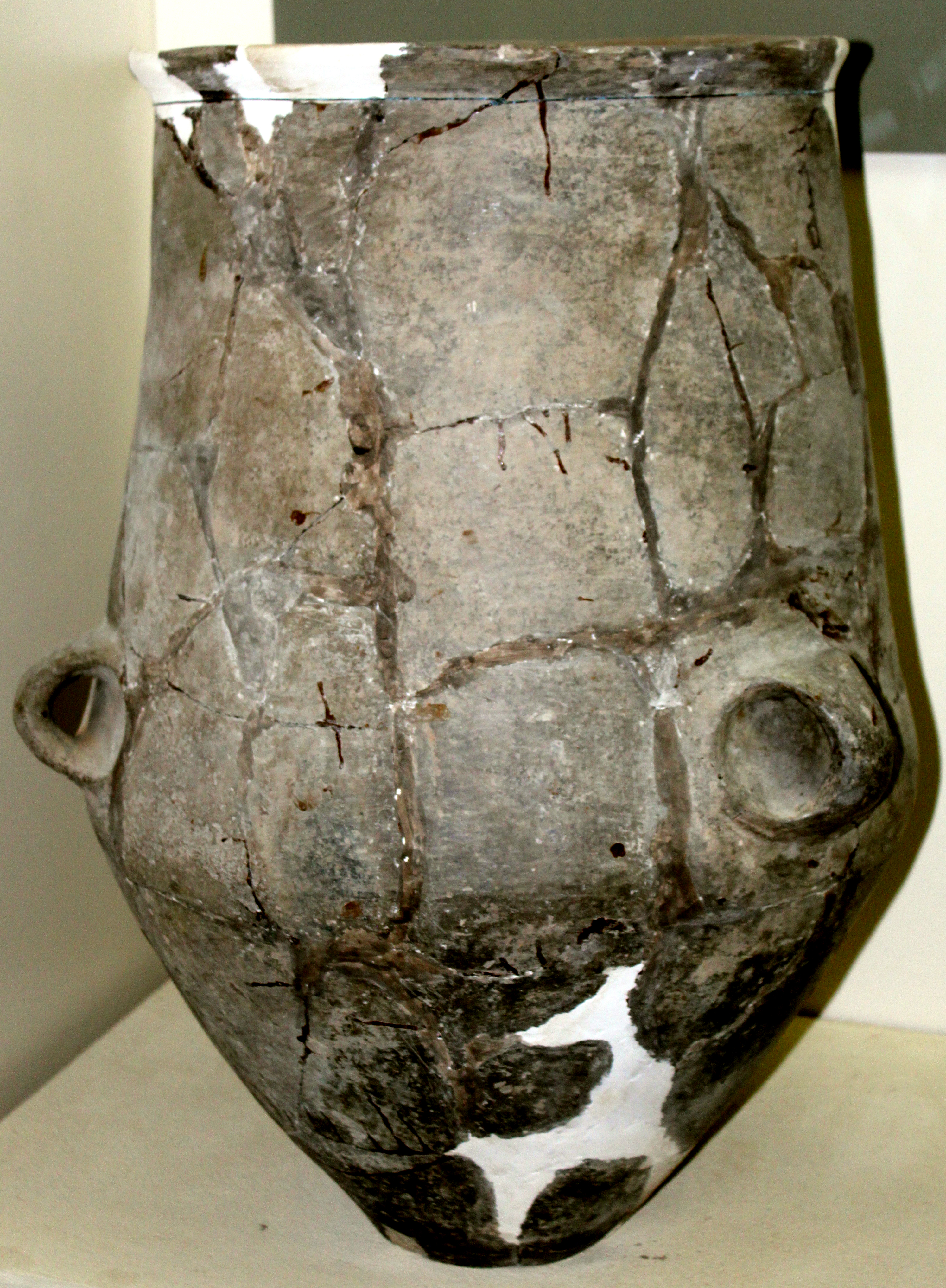 Saxsı küp, Təpəyatağı, Xudat rayonu, Kür-Araz mədəniyyəti